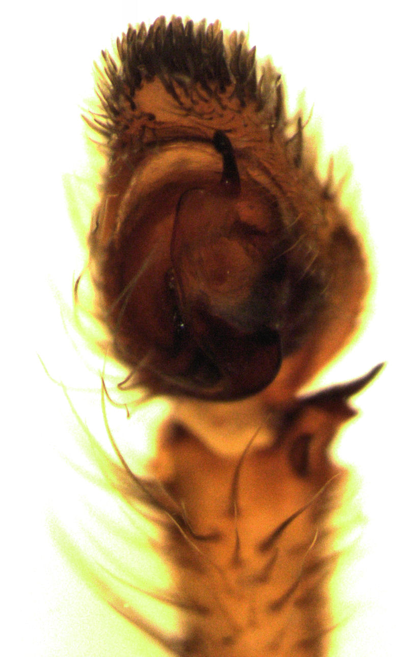 Argoctenus sp. (male palp). For comparison, see fig. 43.2 on p. 71 of Paquin, P.; Vink, C.J.; Dupérré, N. 2010: Spiders of New Zealand: annotated family key & species list. Manaaki Whenua Press, Lincoln, New Zealand. ISBN 9780478347050